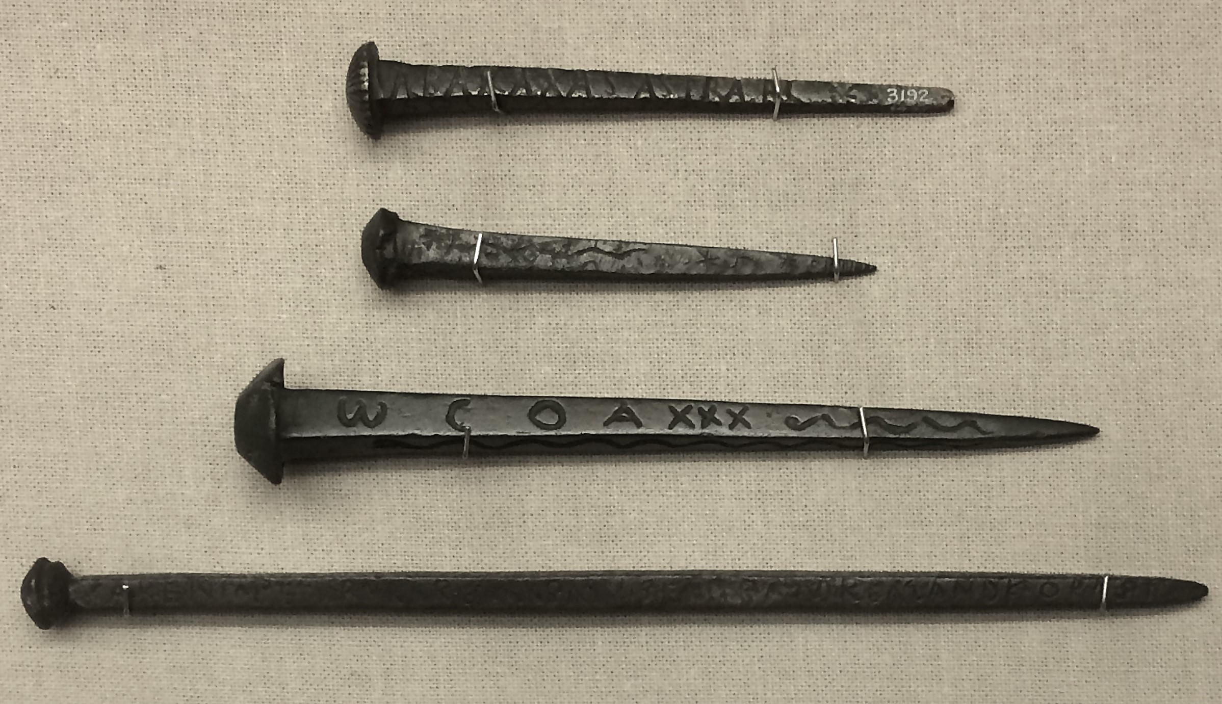 Bronze nails with magical signs and inscriptions Roman, 3rd-4th century AD Magical nails 'fixed' permanently with the power of magic. Some were used in shrines, others were probably driven into doors of houses to protect the household. The largest nail here has an incantation to the goddess Aremis, the others have words and signs borrowed from Paganism, Judaism and Christianity. GR 1856.12-26.886 GR 1873.8-20.147 GR 1975.9-2.8 GR 1873.8-20.146 BM Cat Bronzes 3191, 3193, 3192, 3194 (Above information from the info card at the British Museum, London. Items also held at the British Museum)